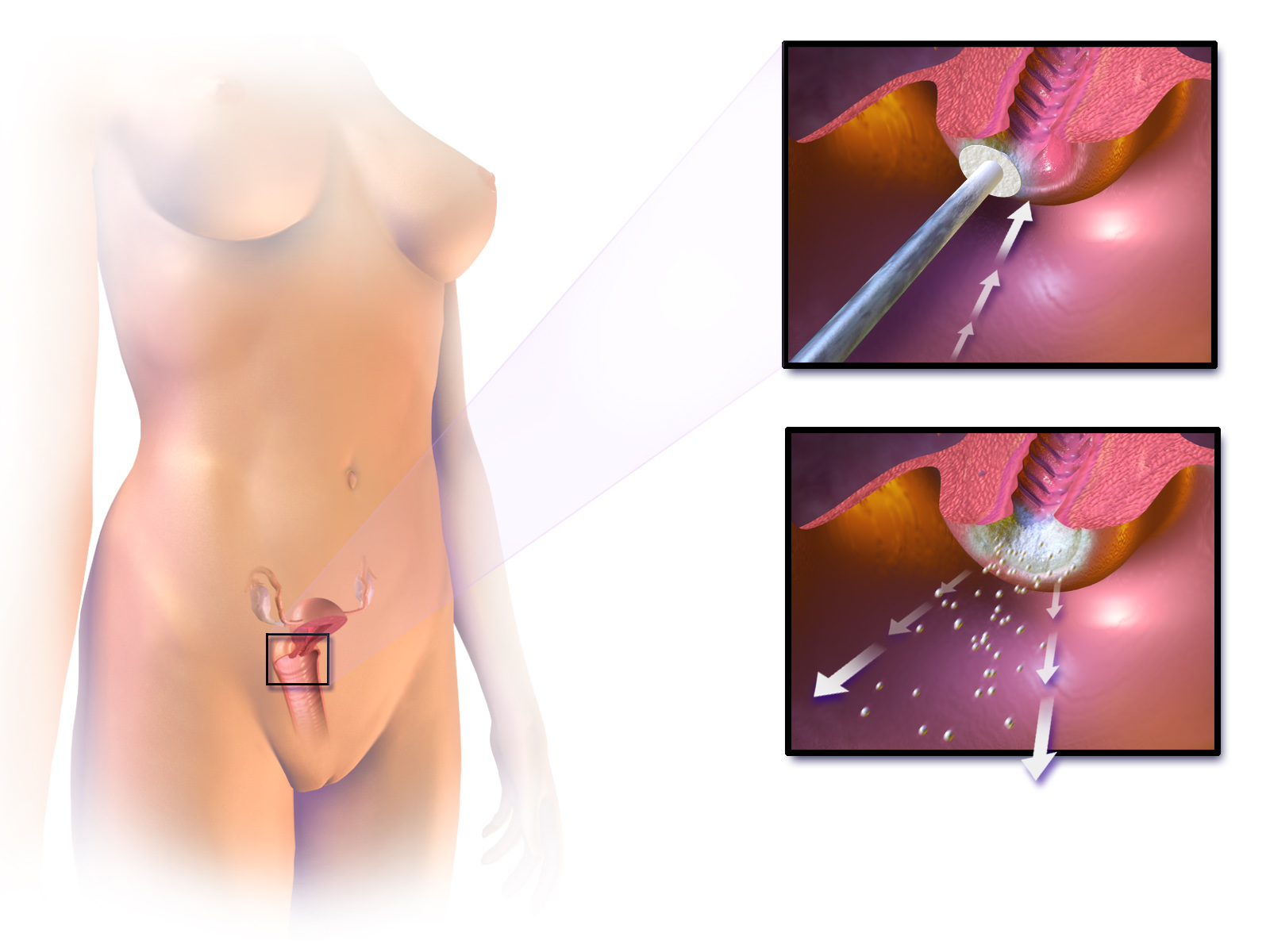 Illustration of cervical cryotherapy